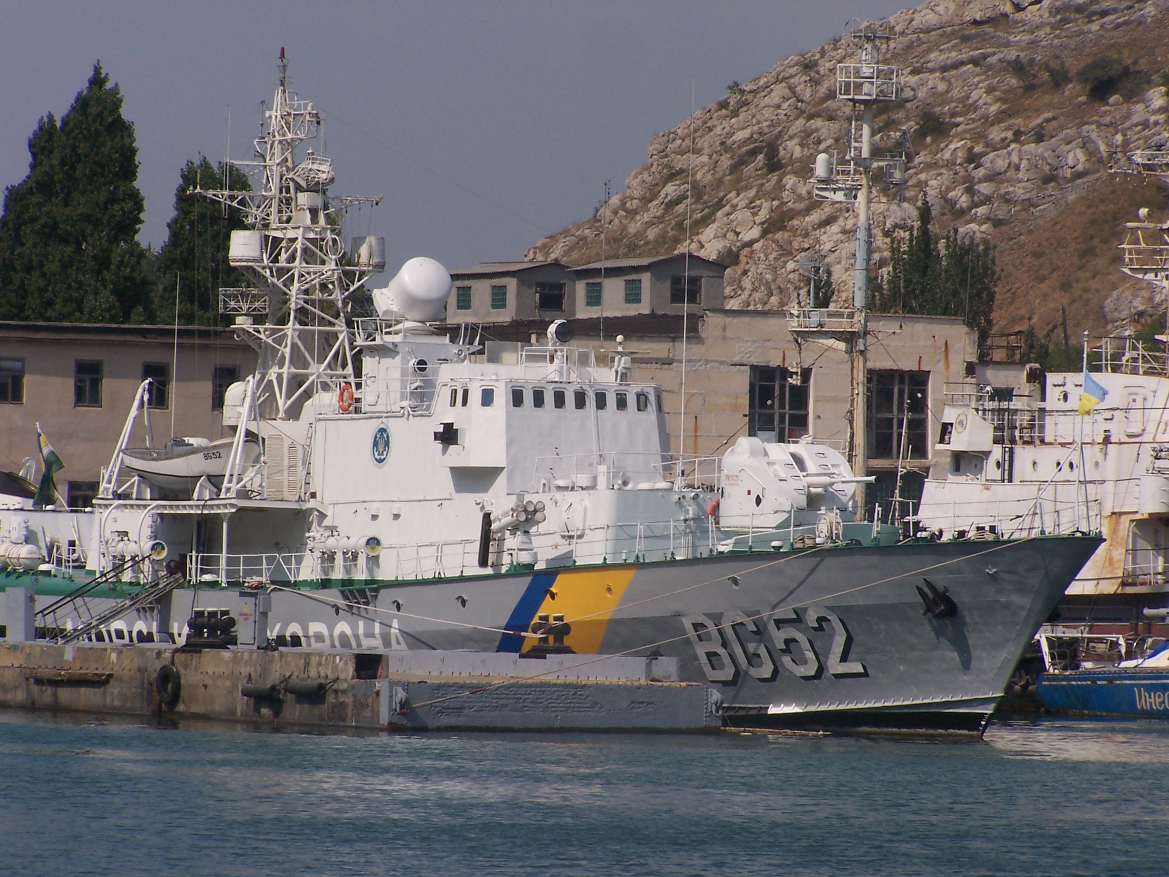 Pauk class corvette BG 52 "Grigory Gnatenko" in Balaklava